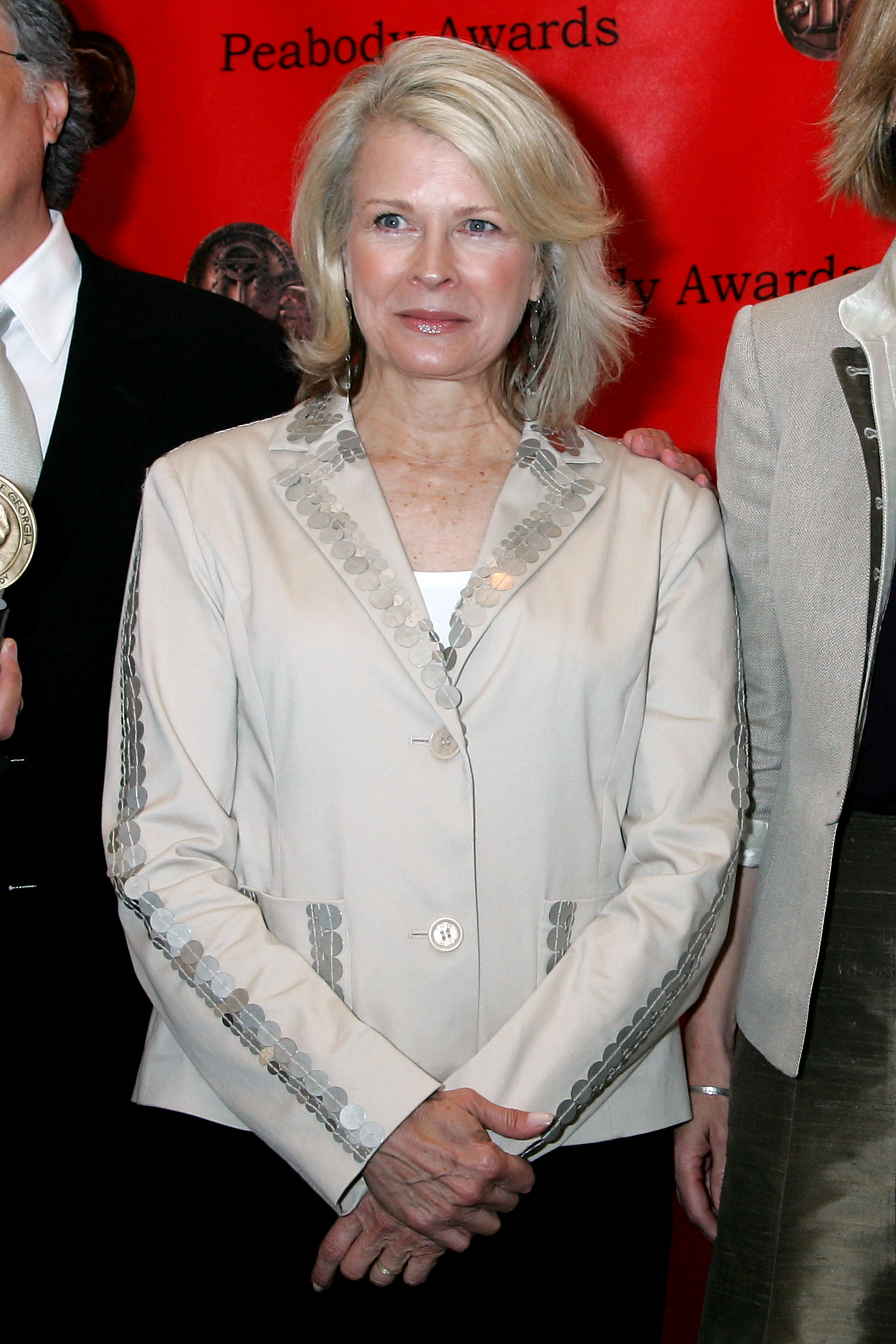 65th Annual Peabody Awards Luncheon Waldorf=Astoria Hotel New York, NY USA June 5, 2006